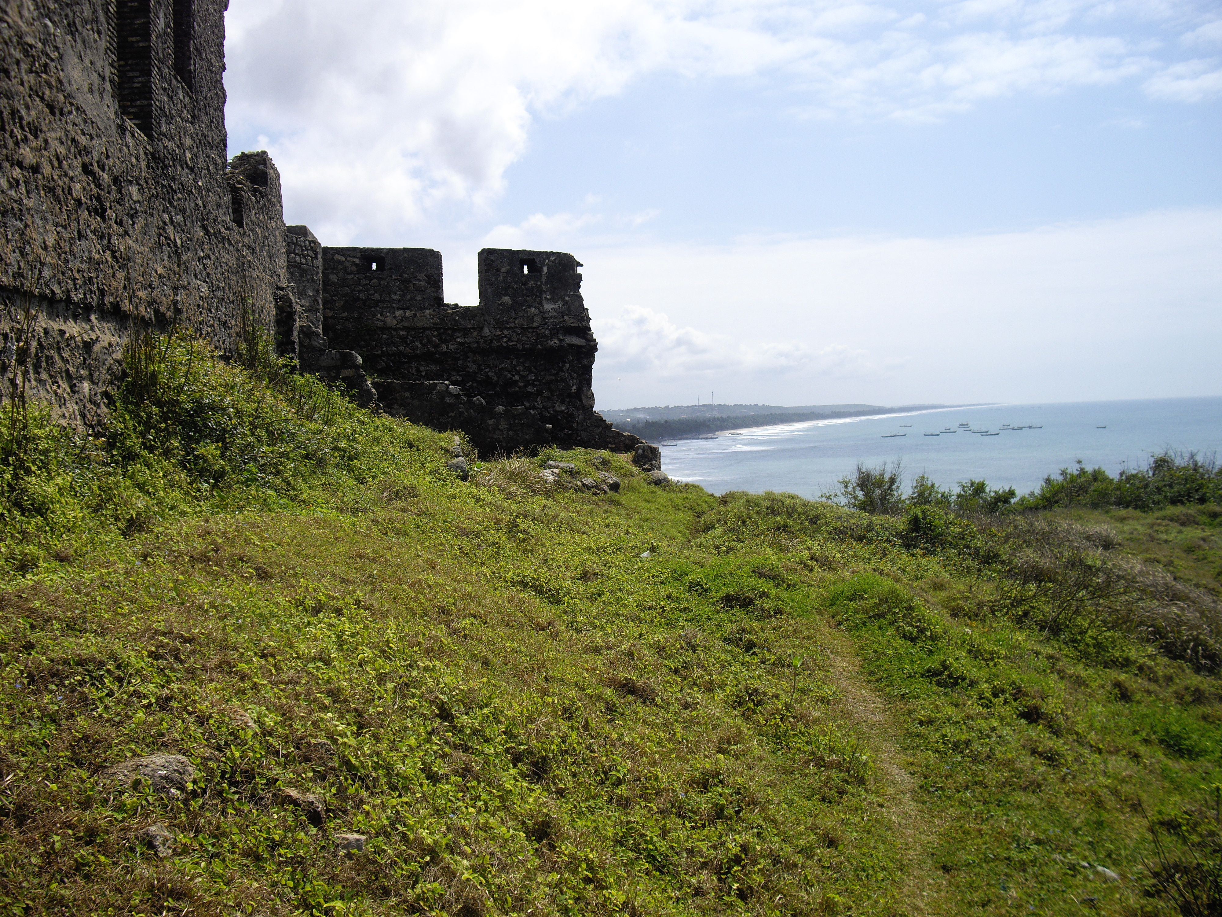 Fort on the Dutch Gold Coast (Ghana), picture taken in 2011